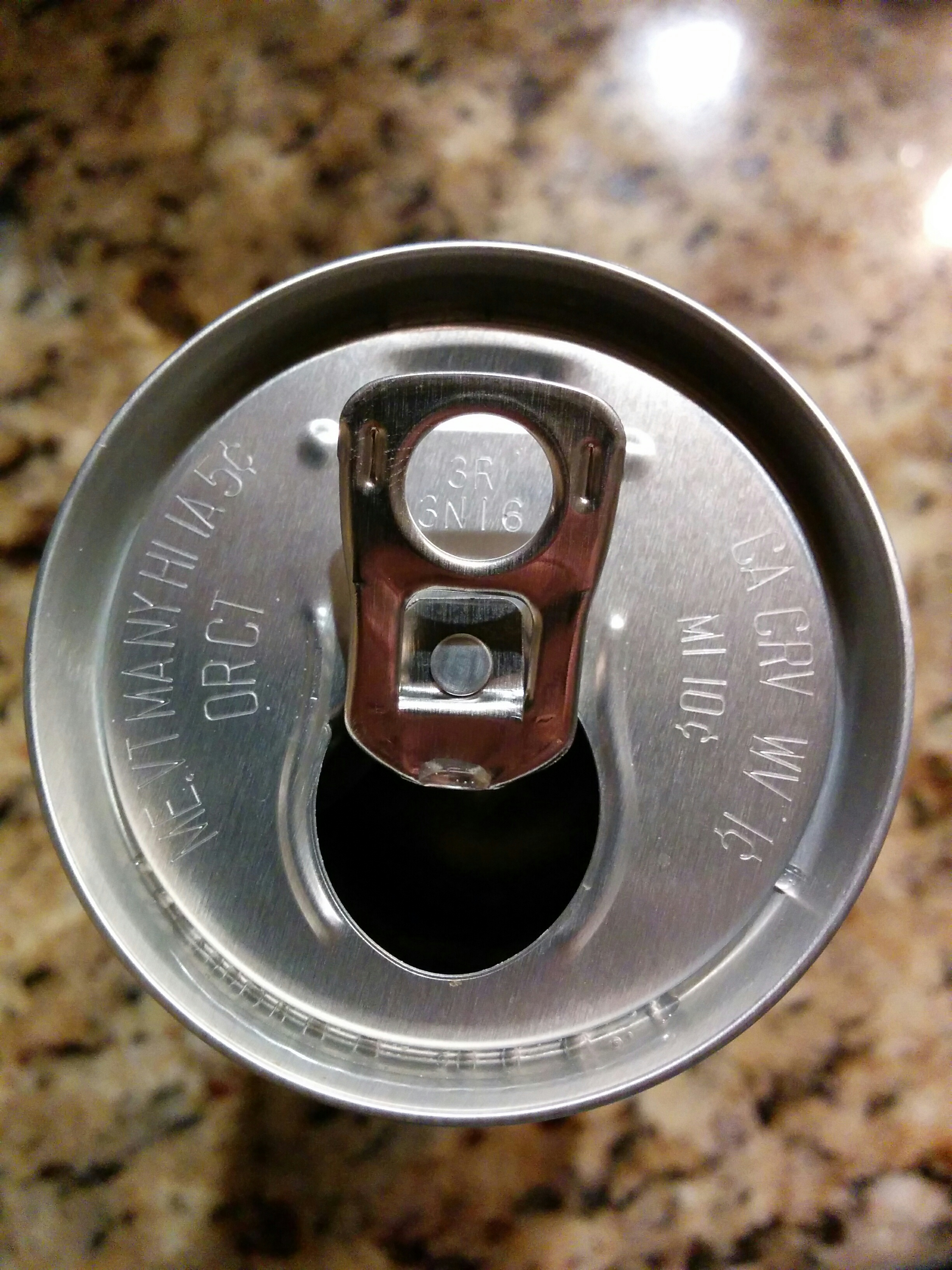 top of a Perrier can